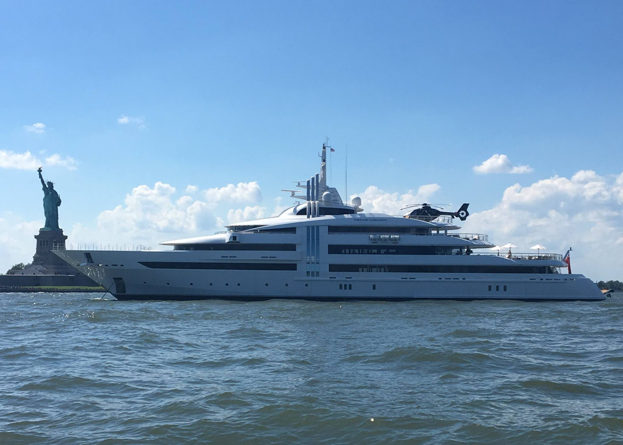 Vibrant Curiosity at anchor north of the Statue of Liberty. Photo taken from a passing sailboat at about 70m.